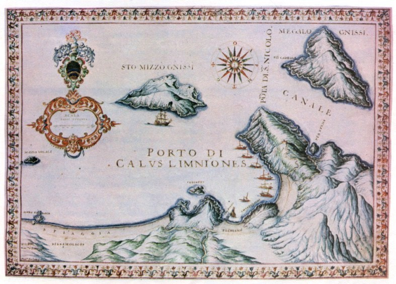 Engraving of Fair Havens, executed in 1650 by F. Basilicata.Acts 27 reports the events of Sept/Oct 58/59[2] during which Paul, after a two-year detention in Caesarea, boarded a ship of Adramittium as prisoner, accompanied by two Christians, Luke and Aristarchus, as traveling companions. They then crossed the sea from Sidon and Cyprus and reached Mira in Licia, from where the ship likely continued its journey along the Asian coast to its home port in Mycia, north of Ephesus. Therefore, Julius, the officer of the imperial regiment, secured an Alexandrian ship with Italy as its destination, and the prisoners were transferred. With difficulty they were able to reach the sheltered southern coastline of Crete and navigate it to Fair Havens, near Lasea. Here the anchor was lifted again and they sailed, aided by a light breeze, along the coast with Port Phenice, 40 miles distant, as their next destination. Before long however, a strong wind or so-called Eurakilon, carried the ship with its 276 passengers offshore on a hazardous adventure.